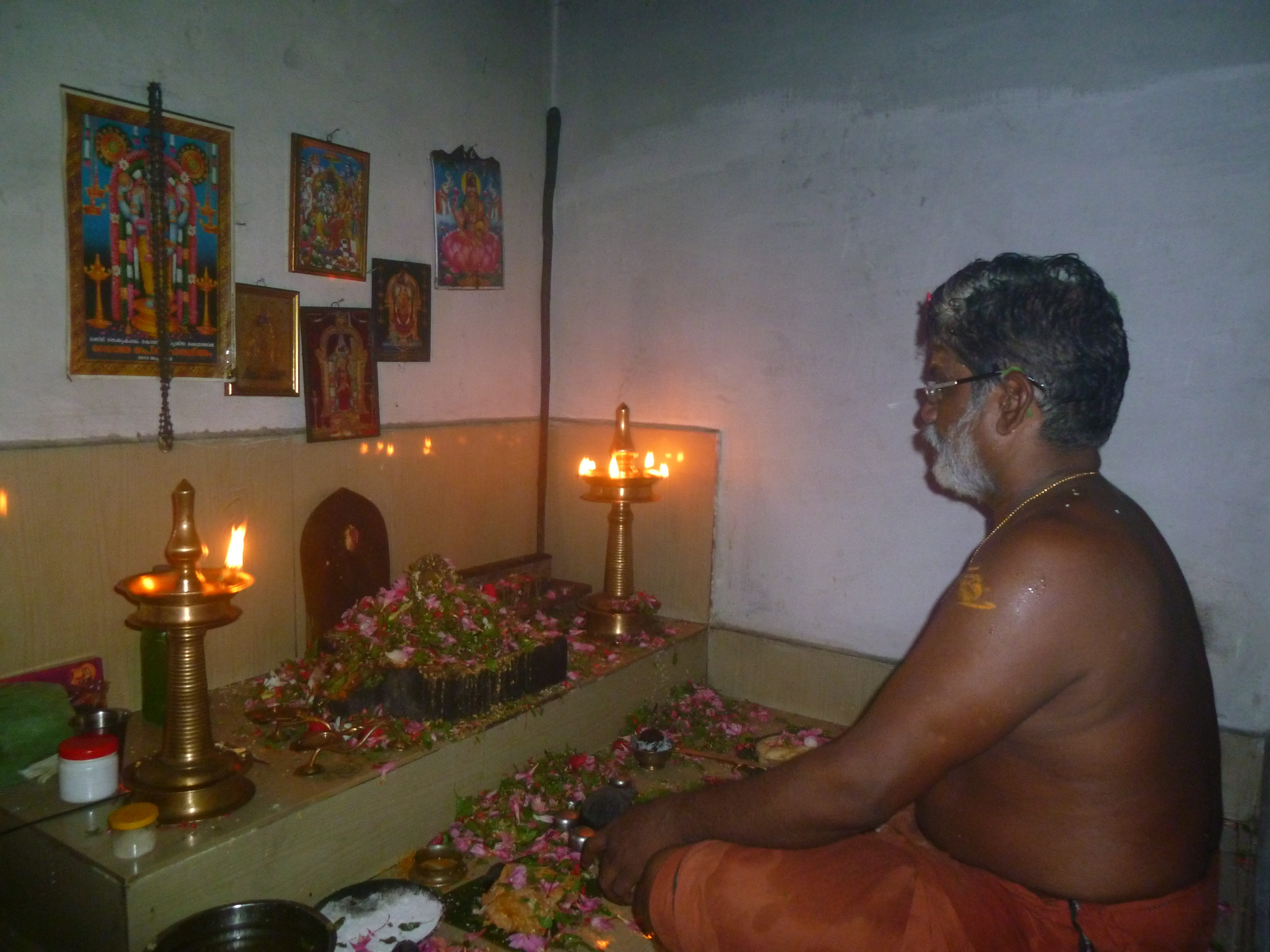 Photo of an Ezhutahchan(Kadupattan), During Shakti worship. From Lakkidi, Palakkad, Kerala